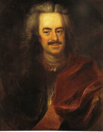 Portrait of Leopold I, Prince of Anhalt-Dessau (1676-1747)